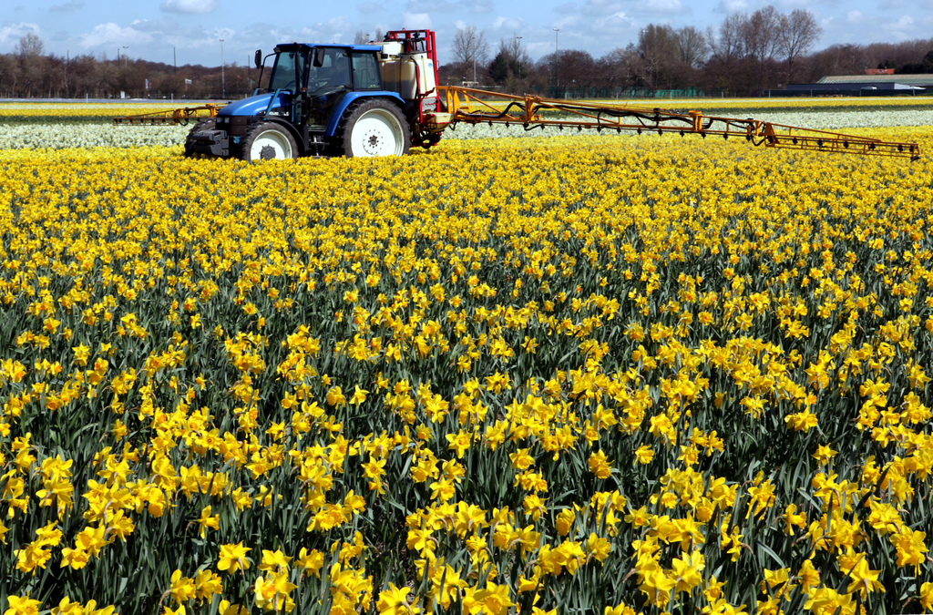 New Holland TL 90 with a field sprayer on a Narcissus field in Europe (the Netherlands presumably)